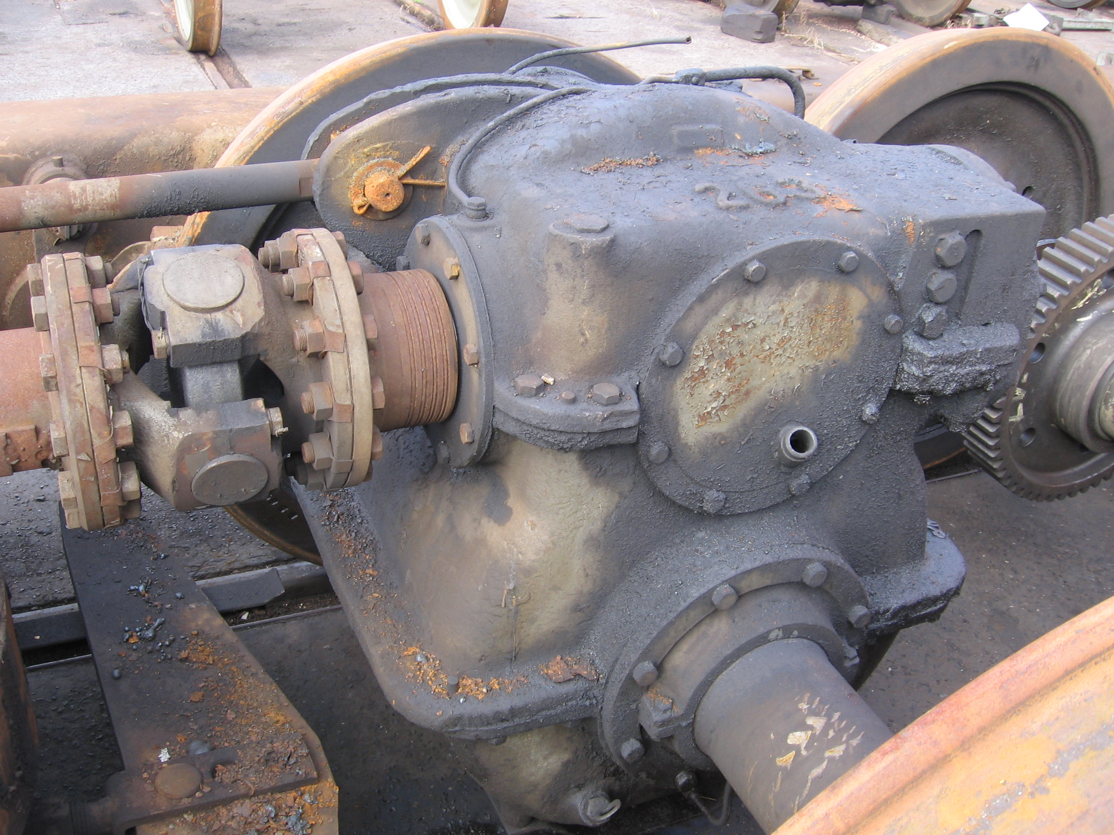 Bogie of ČSD Class 725 and 726